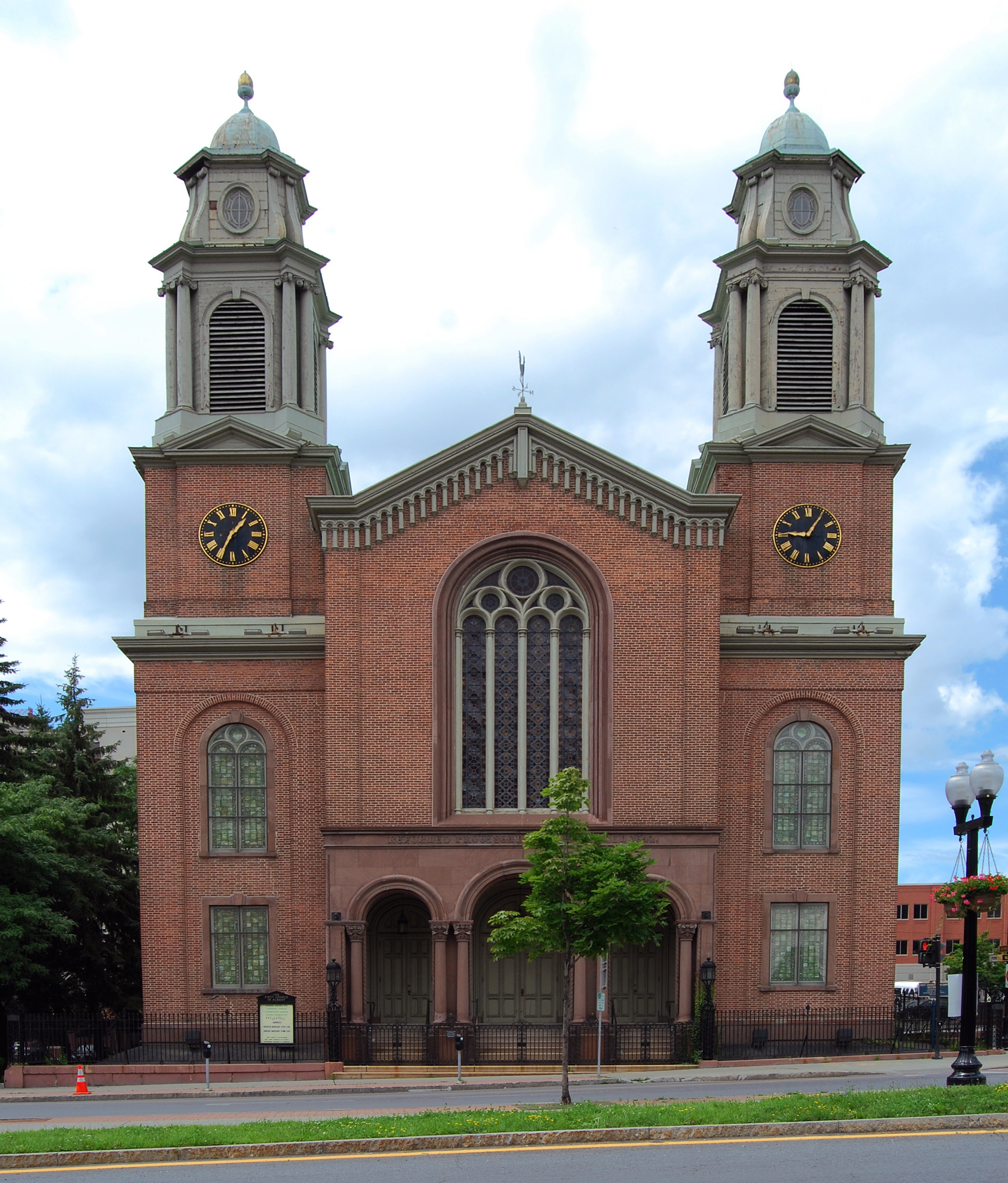 The First Reformed Dutch Church, built in 1798, in Albany, New York, United States. It was added to the National Register of Historic Places in 1974.